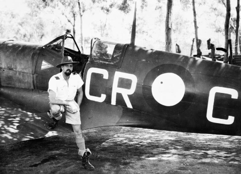 Commonwealth Air Aces of the Second World War Strauss Airfield, NT. Wing Commander Clive 'Killer' Caldwell, the most successful Australian fighter pilot of the war with 28 victories, posing beside his Spitfire. He flew against the Germans in North Africa and then led the Australian Spitfire Wing in Northern Australia against the Japanese.